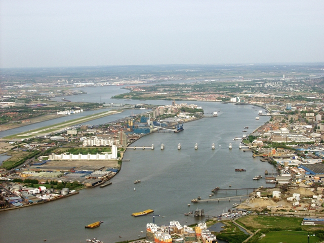 A London View The Barrage, Woolwich Ferry and City Airport from the air